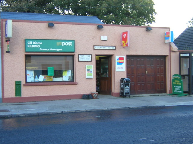 Kildimo Post Office Kildimo is west of Limerick on N69. Note the Green Post Box built into the left side of the building - it is an old U.K. Post Box from the reighn of Edward VII, but has been paited green.The workers in the post office said it was only a few years old - it was the one that was sent when they requested a new box.